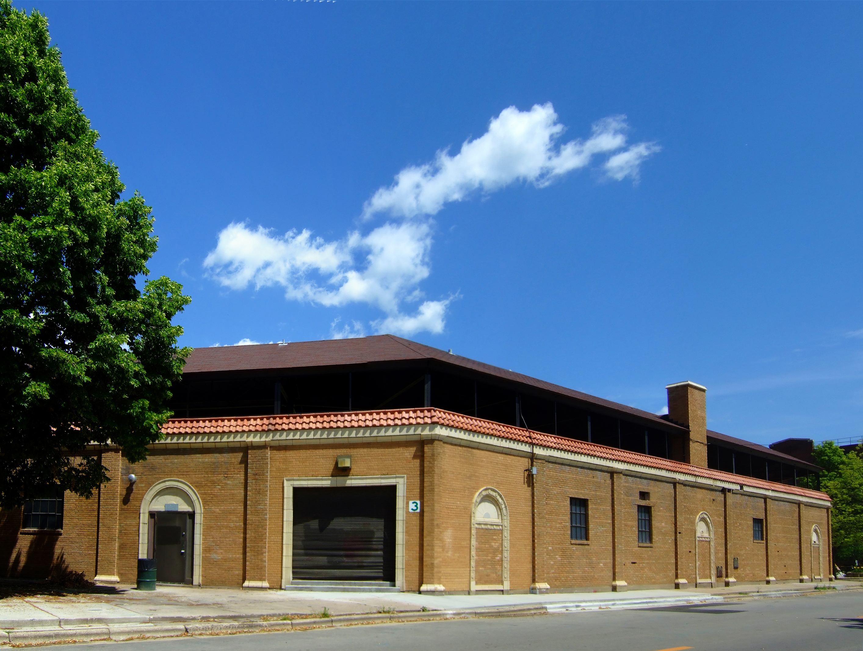 Breese Stevens Field, located nine blocks east of the State Capitol in Madison, Wisconsin, is the city's oldest sports park. It is named for Breese Stevens (1834-1903), a New York native who moved to Wisconsin in 1856 to look after family land interests. Stevens became mayor of Madison in 1884 and a University of Wisconsin regent in 1891. The city purchased the land in 1923 and commissioned the local architectural firm Claude and Starck to build a brick grandstand in 1925. In 1934, an exterior surrounding stone wall built of quarry rock from Hoyt Park was added as a project of the Civil Works Administration. Until the mid-1960s, this was the only city park with lights, and almost all major outdoor events took place here, including major and minor league baseball, all Madison high school football games, and even midget car racing.